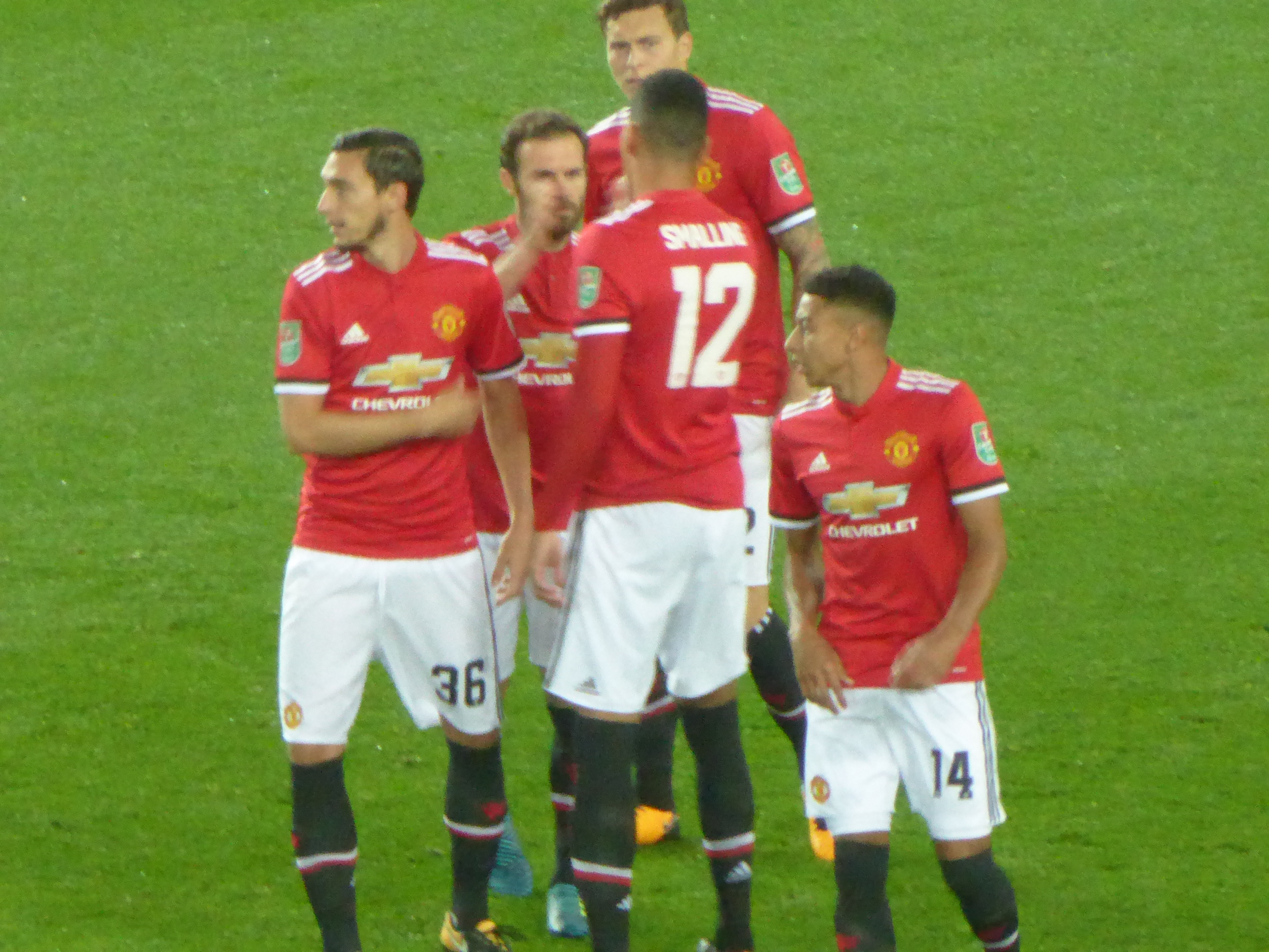 Manchester United v Burton Albion (4-1), Carabao Cup, Old Trafford, Manchester, Greater Manchester, England, 20 September 2017